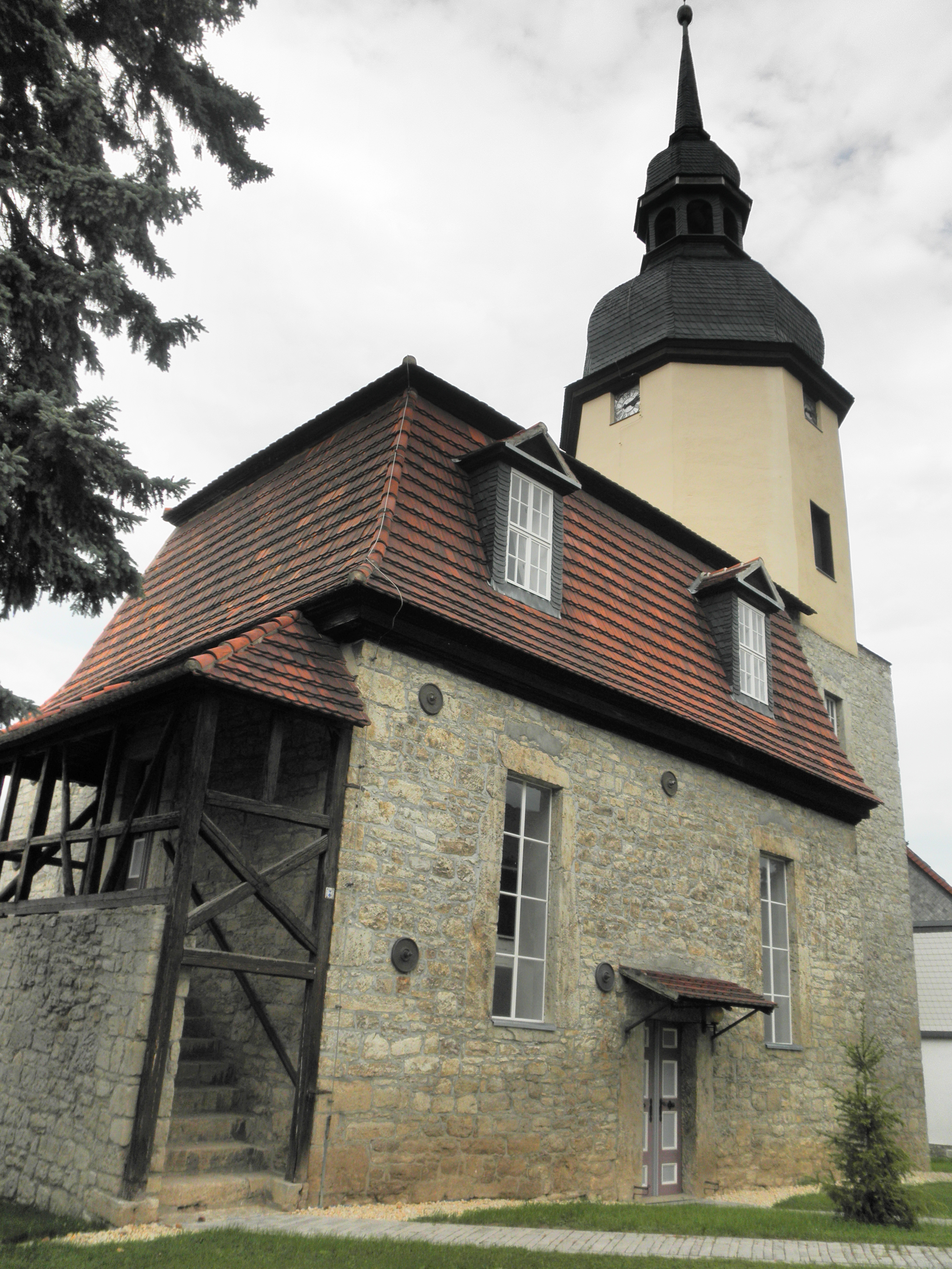 Church in Hirschroda (Dornburg-Camburg) in Thuringia